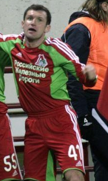 Sergei Gurenko as a player of FC Lokomotiv Moscow